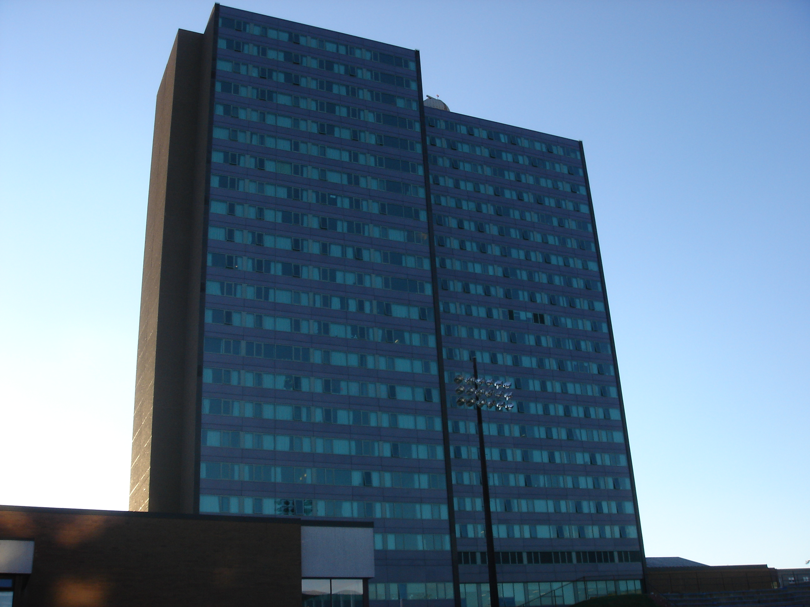 View of the Loyola Residence Building from the Huskies Stadium